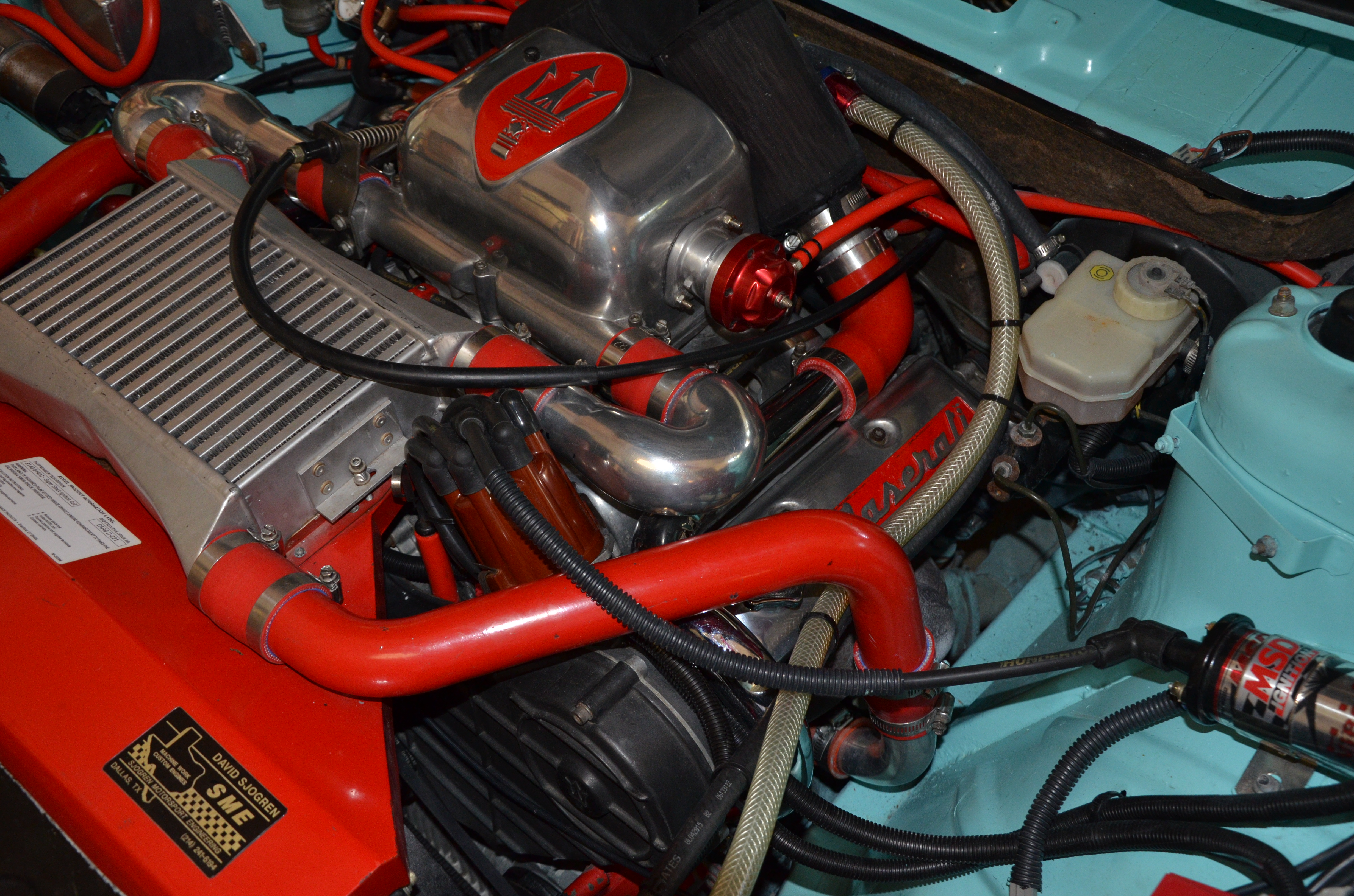 This picture is of my 1985 Maserati Biturbo 2.5 liter, 18 valve, twin IHI turbo engine following restoration of my car to show condition.